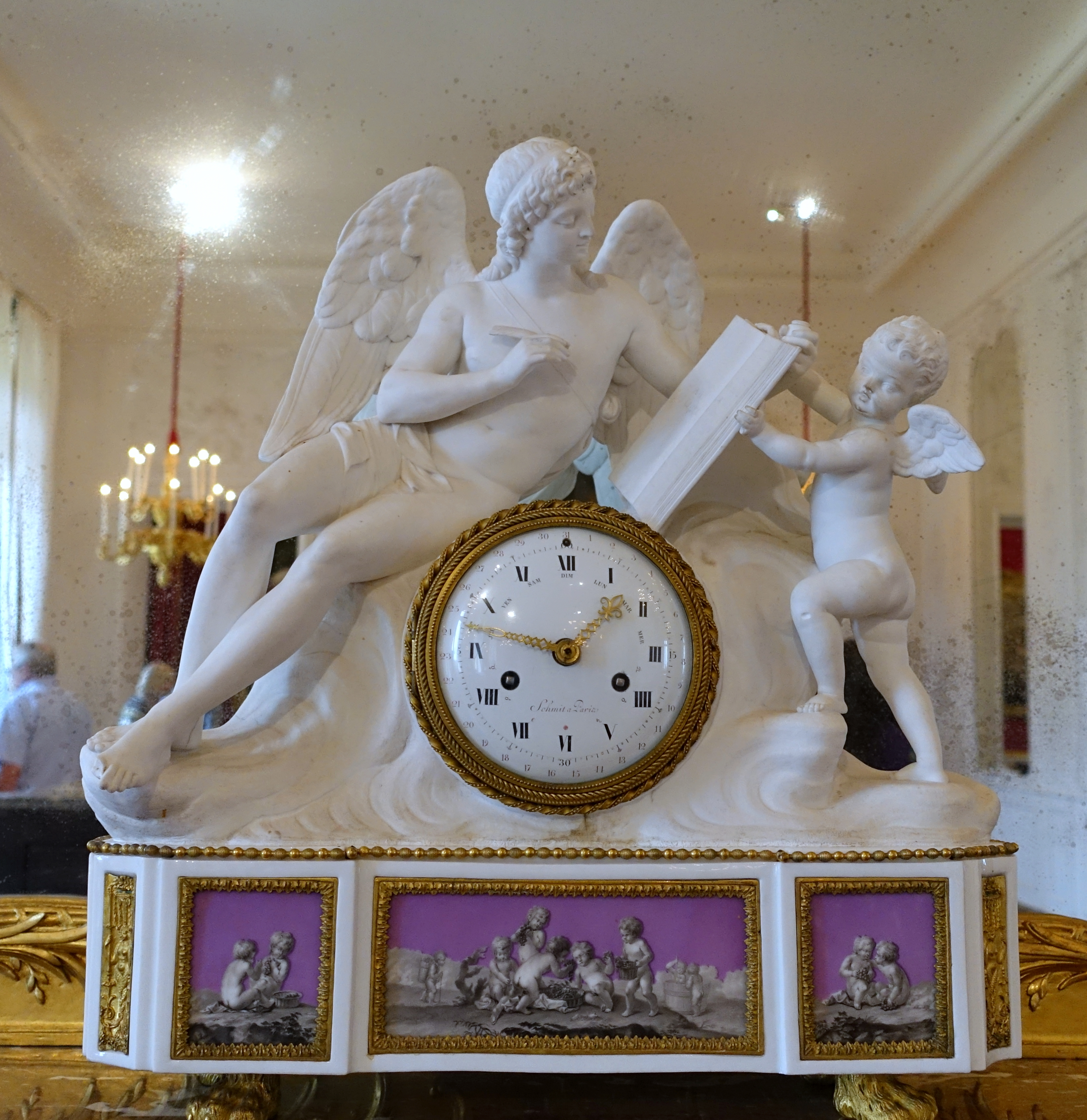 Item in Waddesdon Manor - Buckinghamshire, England.